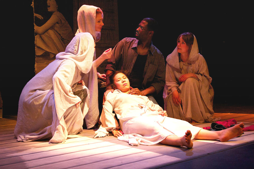 Number 18 dies in the Canadian play She Has a Name